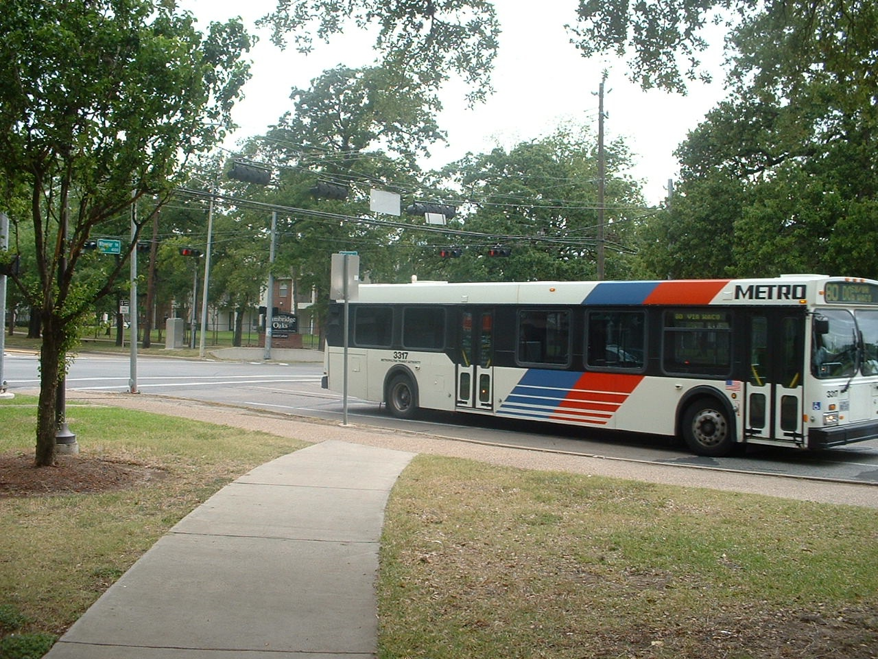 A Metropolitan Transit Authority of Harris County, Texas (METRO) bus driving through the University of Houston campus on Cullen Boulevard at Wheeler Street in Houston.